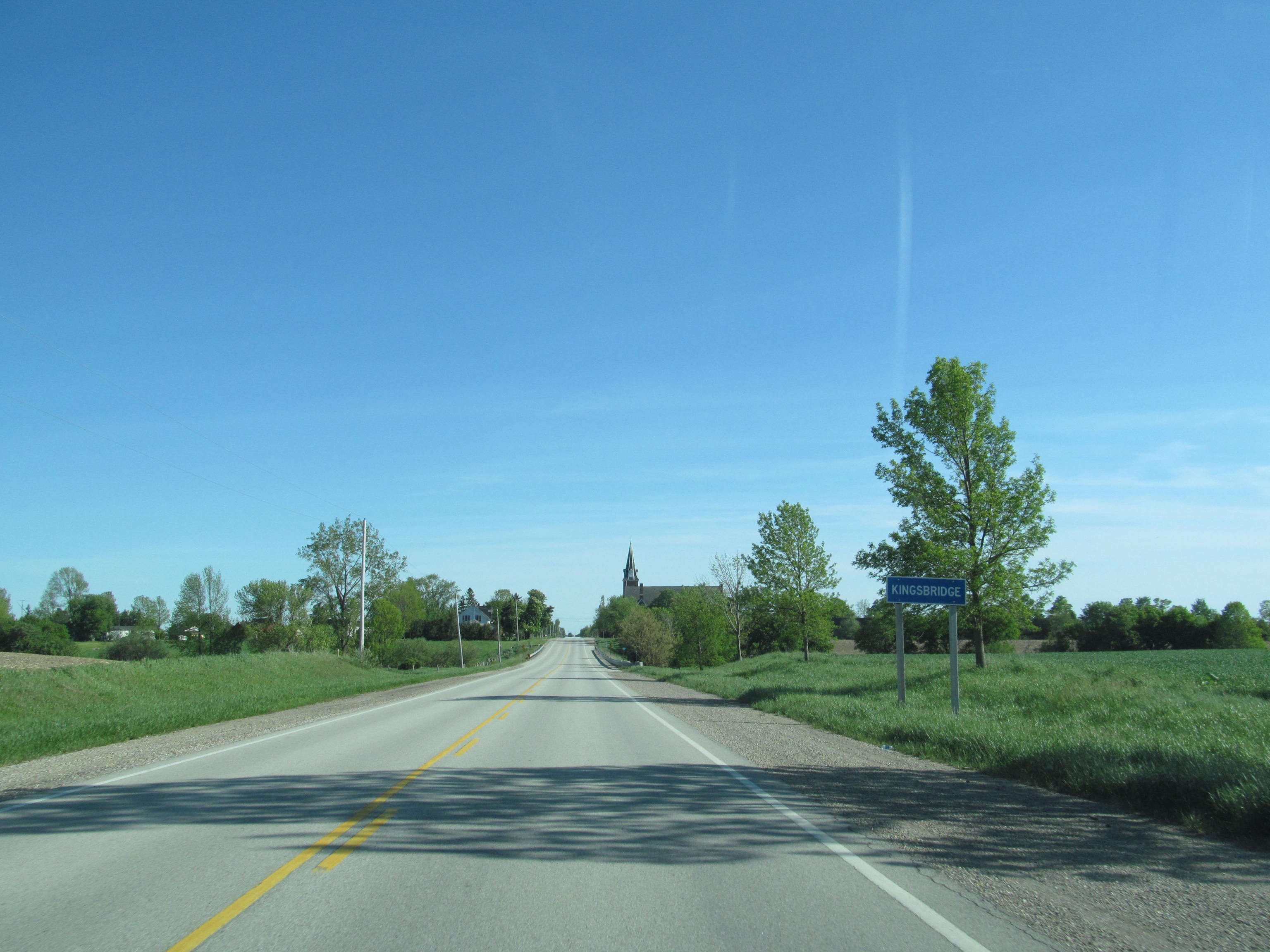 Kingsbridge, Ontario, Canada (from Highway 21).